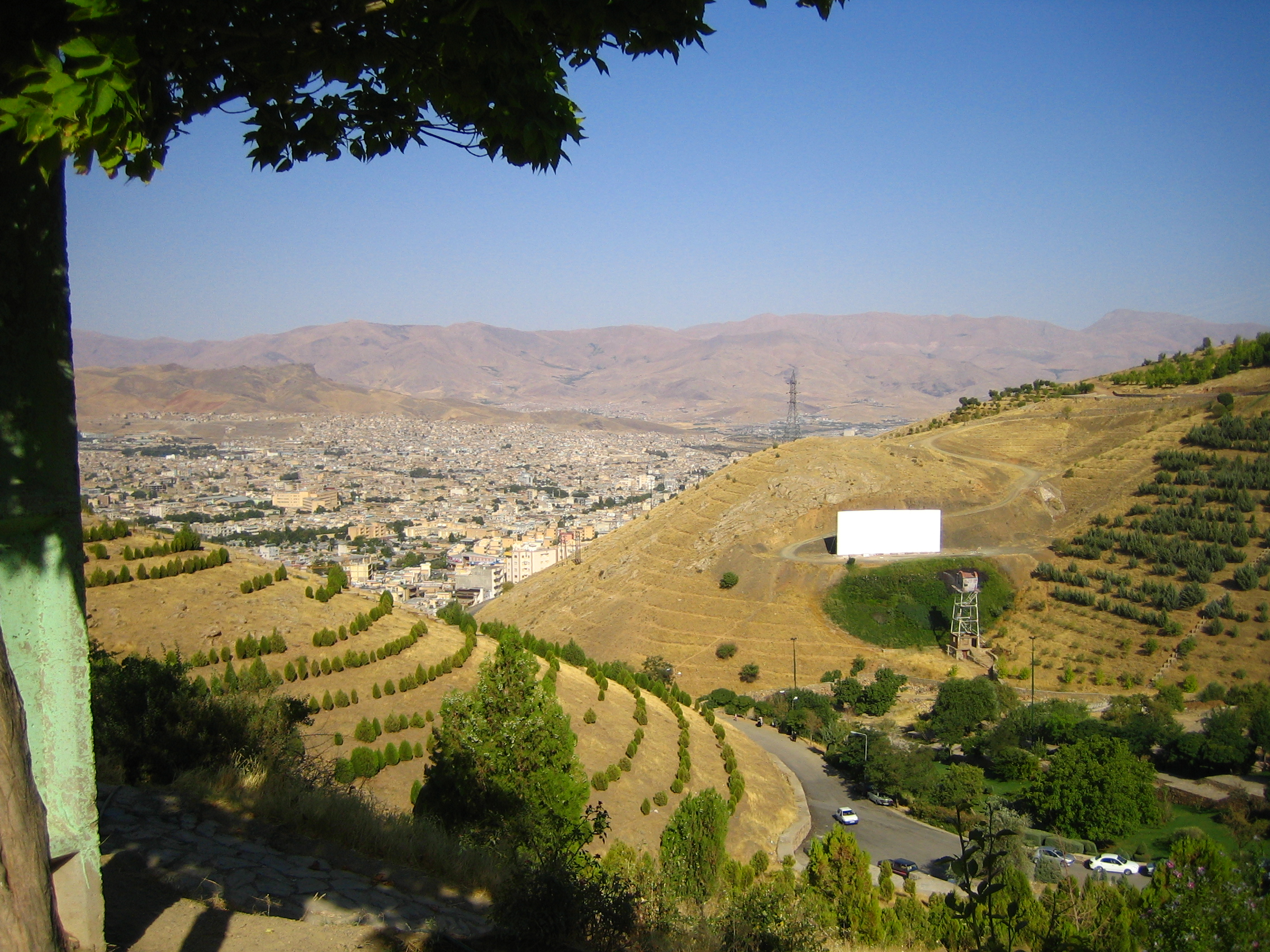 Mayor Ardavan Nosoudi built this outdoor cinema and based on BBC news it is the biggest outdoor cinema in the word.